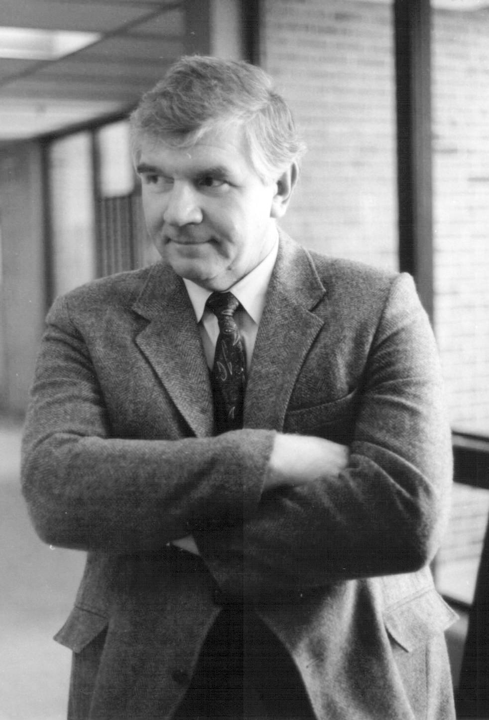 George Perles at Harrison High School in Farmington Hills, Michigan. 35mm photo taken by the author.